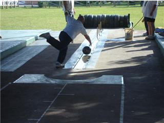 Player of pasabolo plank in the bowling alley of Colindres (Cantabria, Spain)